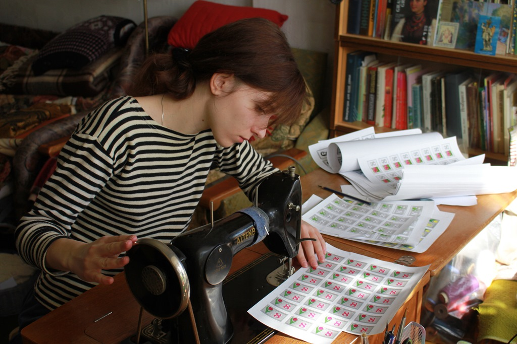 Producing postage stamps